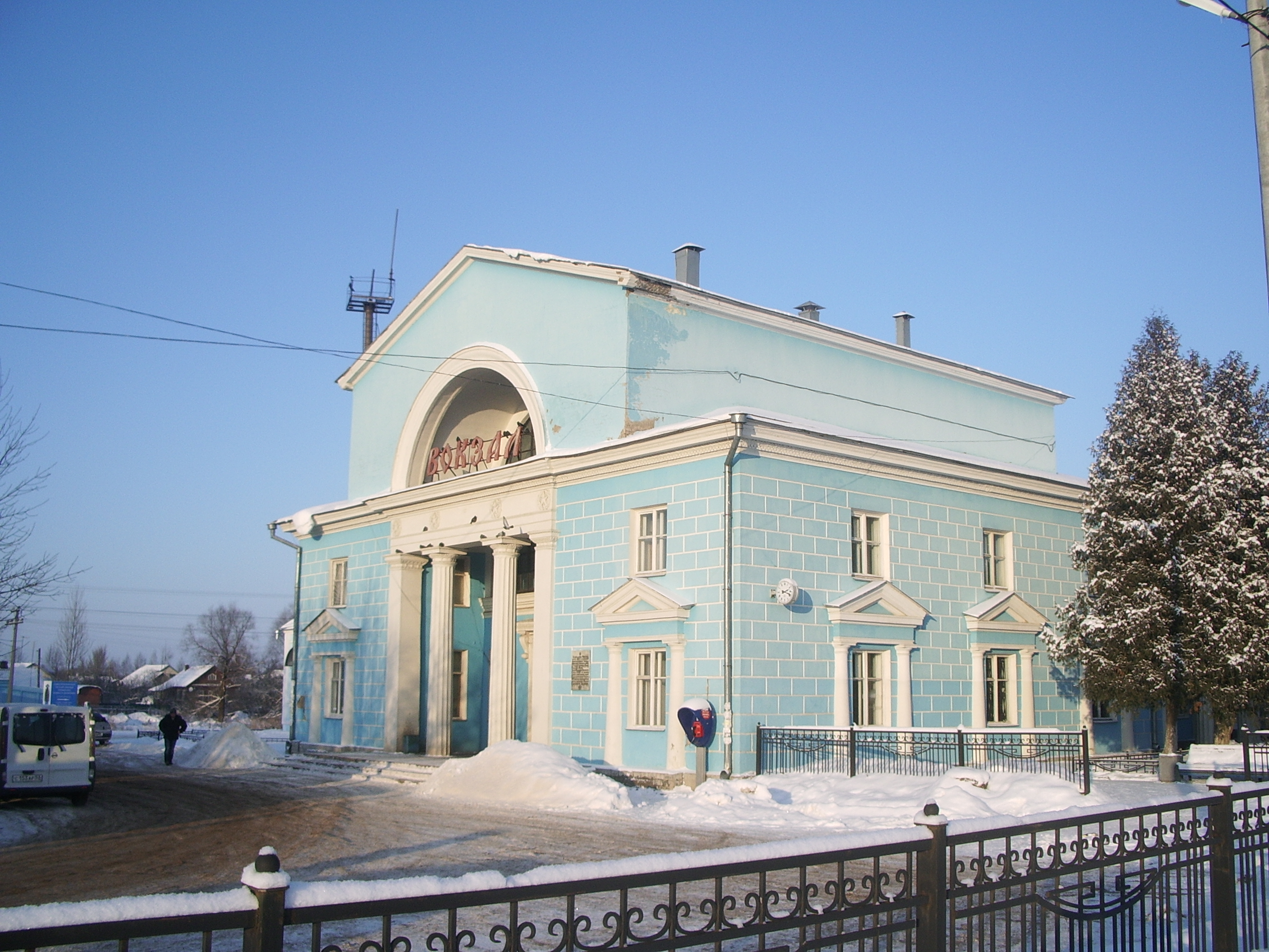 Railway staition in staraya Russa. Novgorod oblast